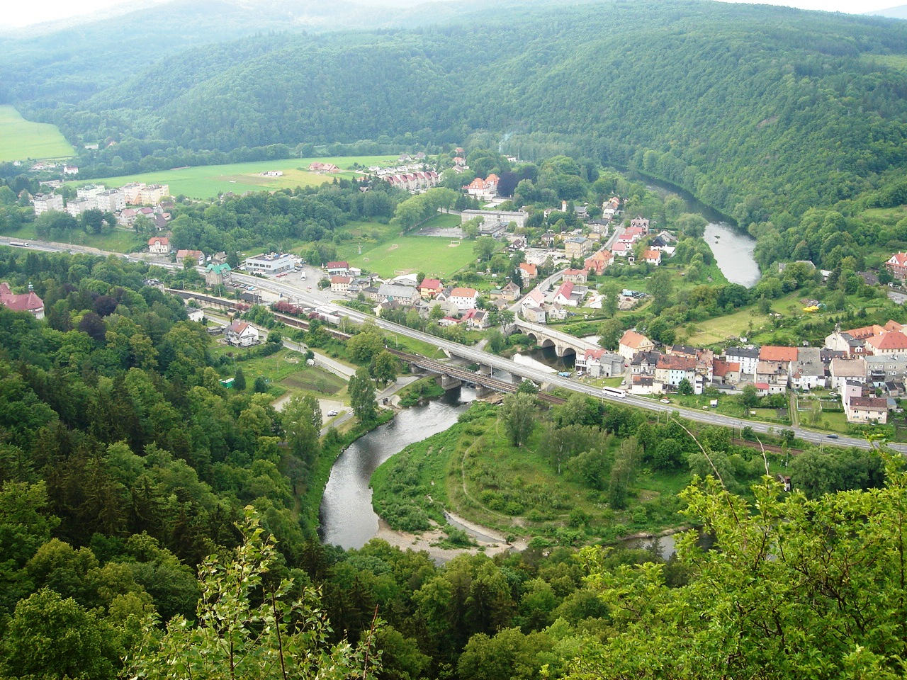 View from Bardzka Mountain (Bardo town)